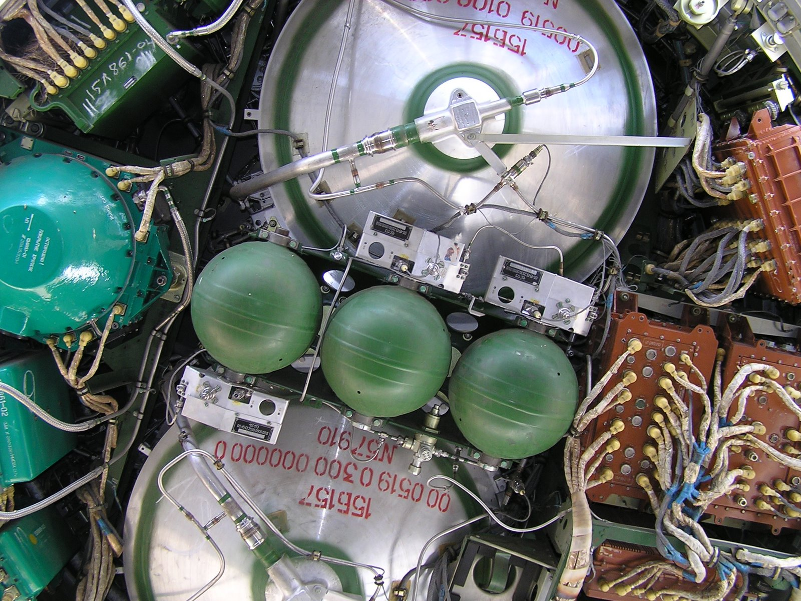 R-36M2 missile between the second stage and the warhead at the Strategic Missile Forces Museum in Ukraine.